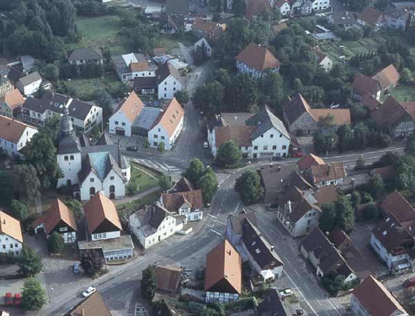 Aerial view of Lemgo-Brake